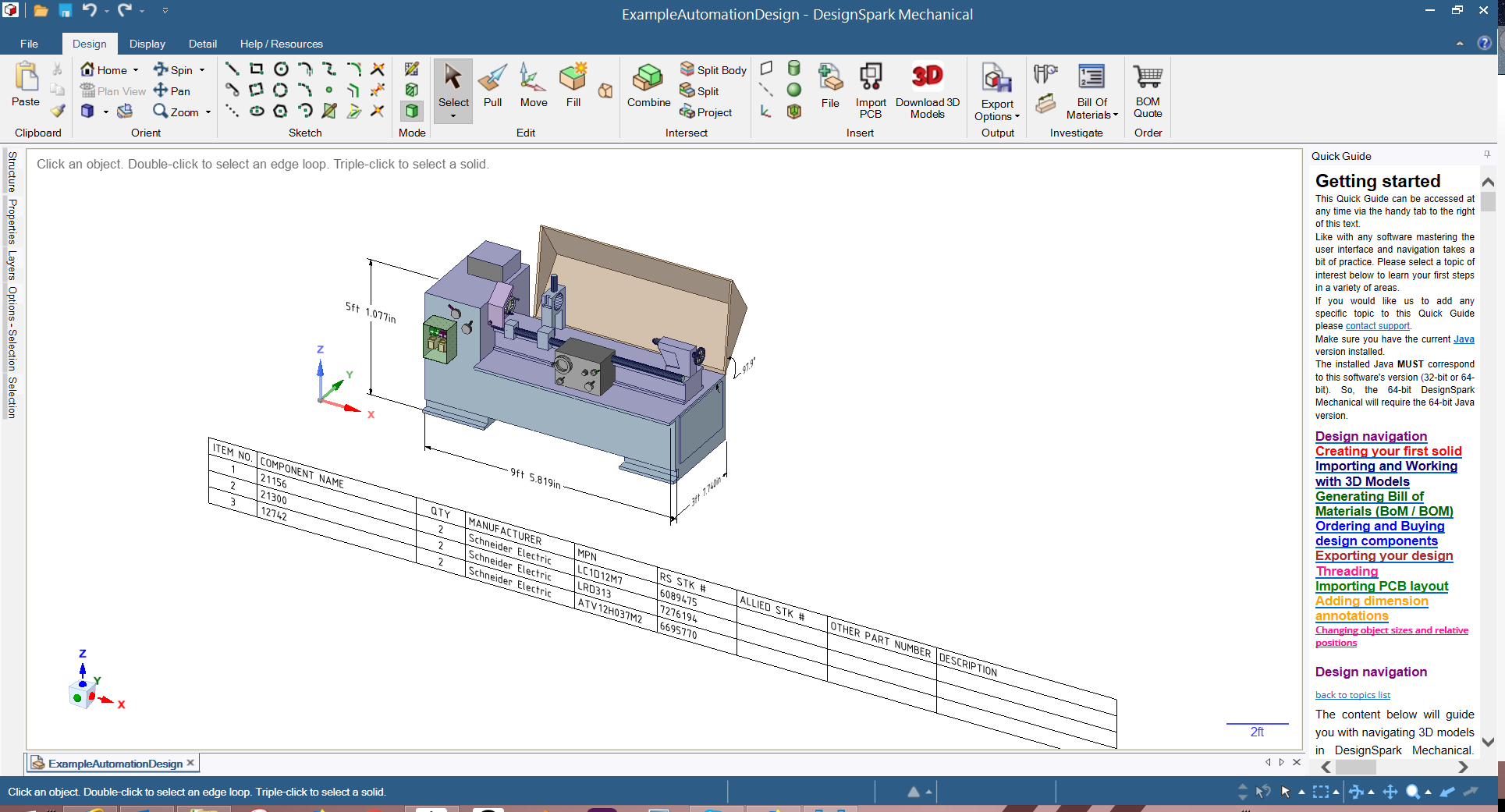 A screengrab from the DesignSpark Mechanical 4.0 software release showing the design tab with sketch and 3D manipulation tools.